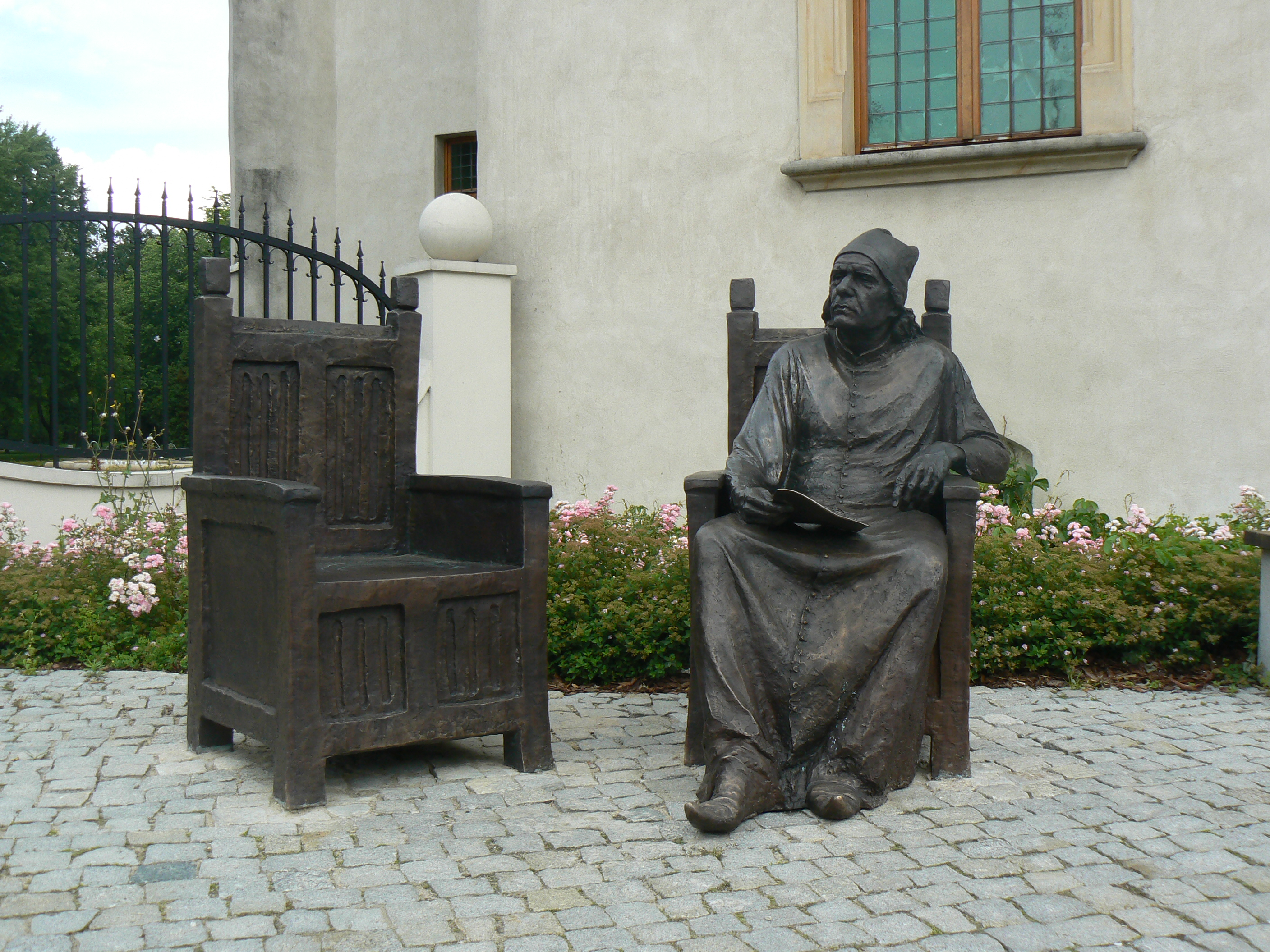 The monument of Jan Długosz in Pabianice. Unveiling date: 2017.05.06.